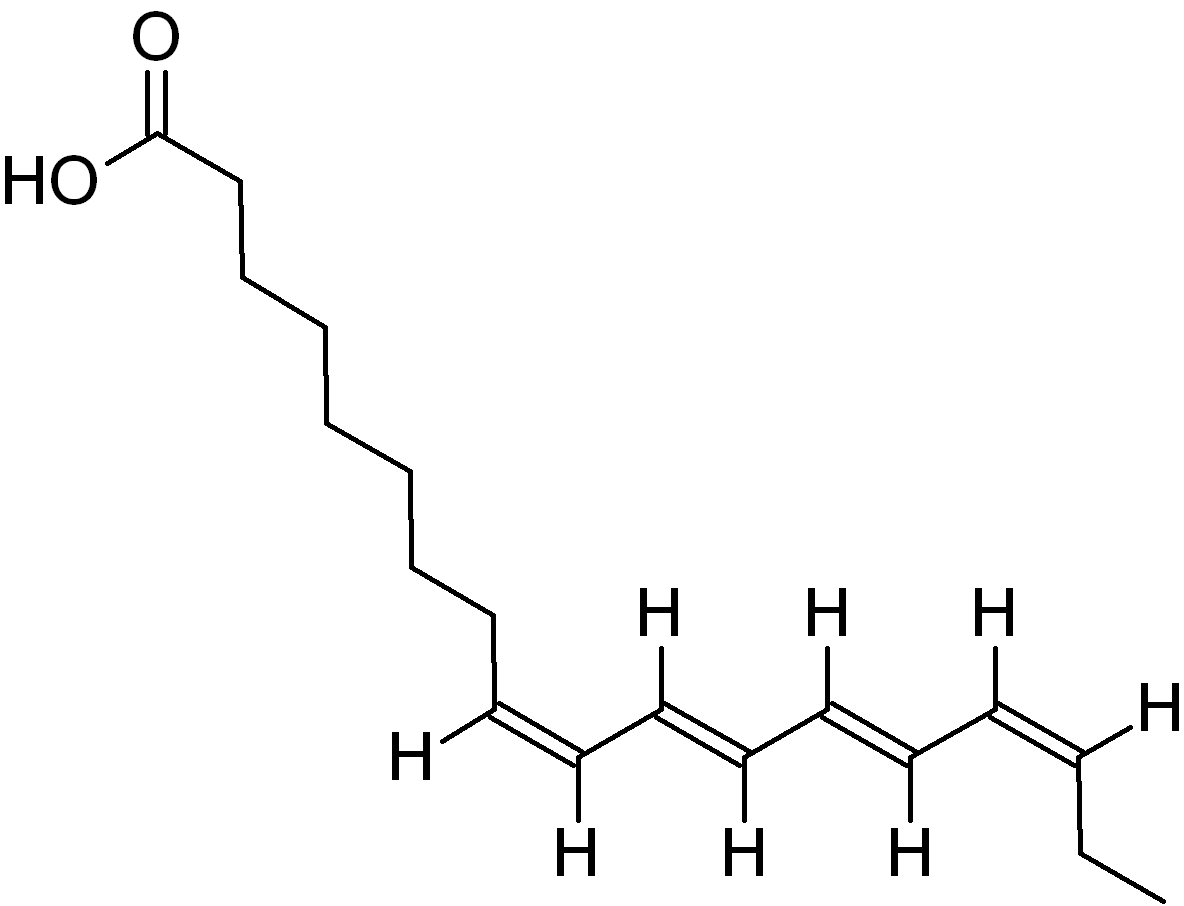 Alpha-Parinaric acid